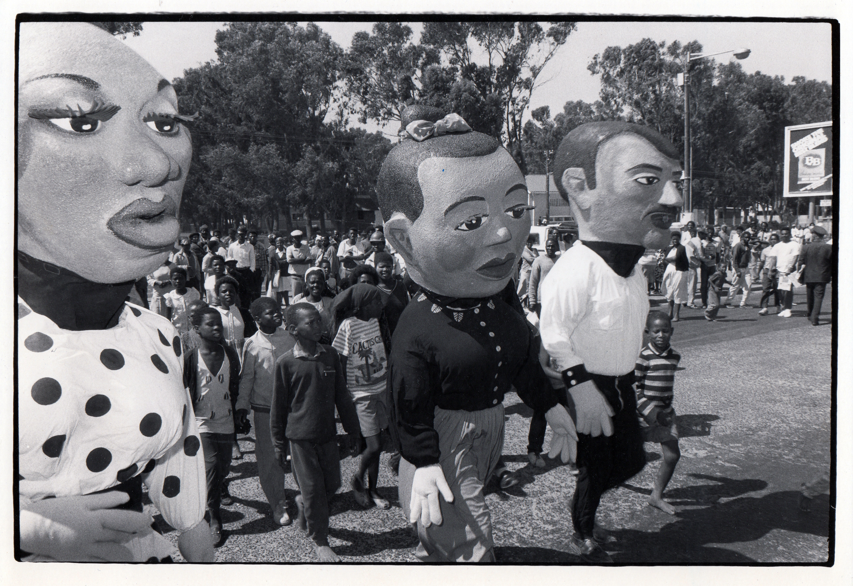 Soweto, South Africa. 1980's. Children following puppeteers with Puppets Against AIDS